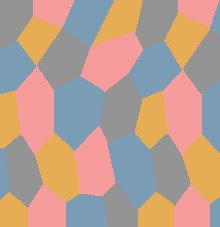 Four-color lozenge camouflage typical of certain patterns used on German aircraft in World War I.